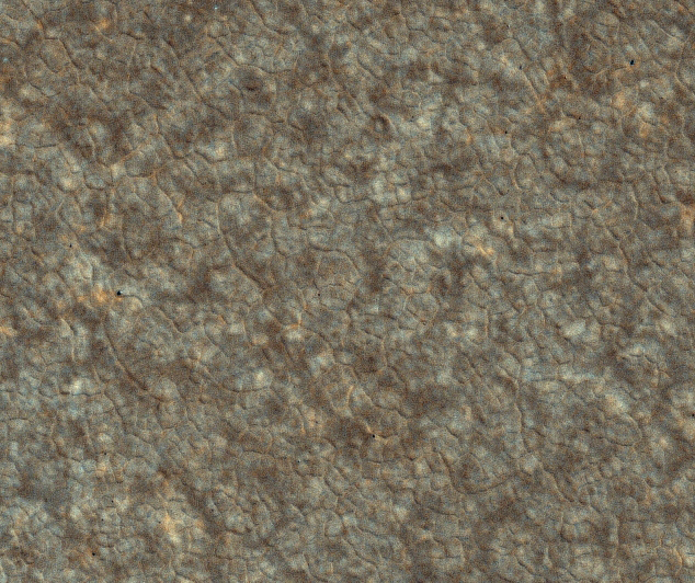 False-color Mars Reconnaissance Orbiter image of polygonal surface pattern near the Phoenix landing site.